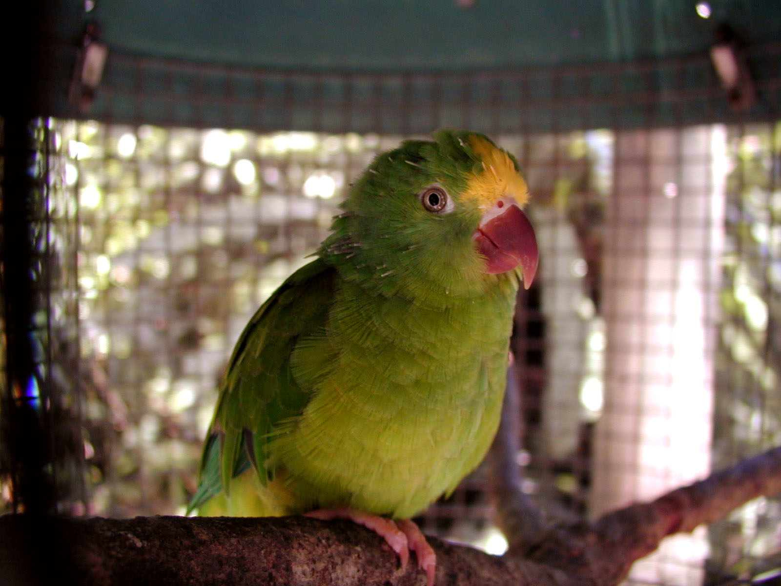 Tui Parakeet in a cage.